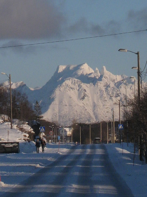 View of Møysalen mountain from Gulstad, Melbu, Nordland, Norway.